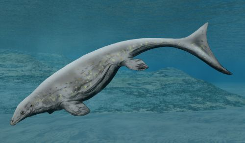 Latoplatecarpus